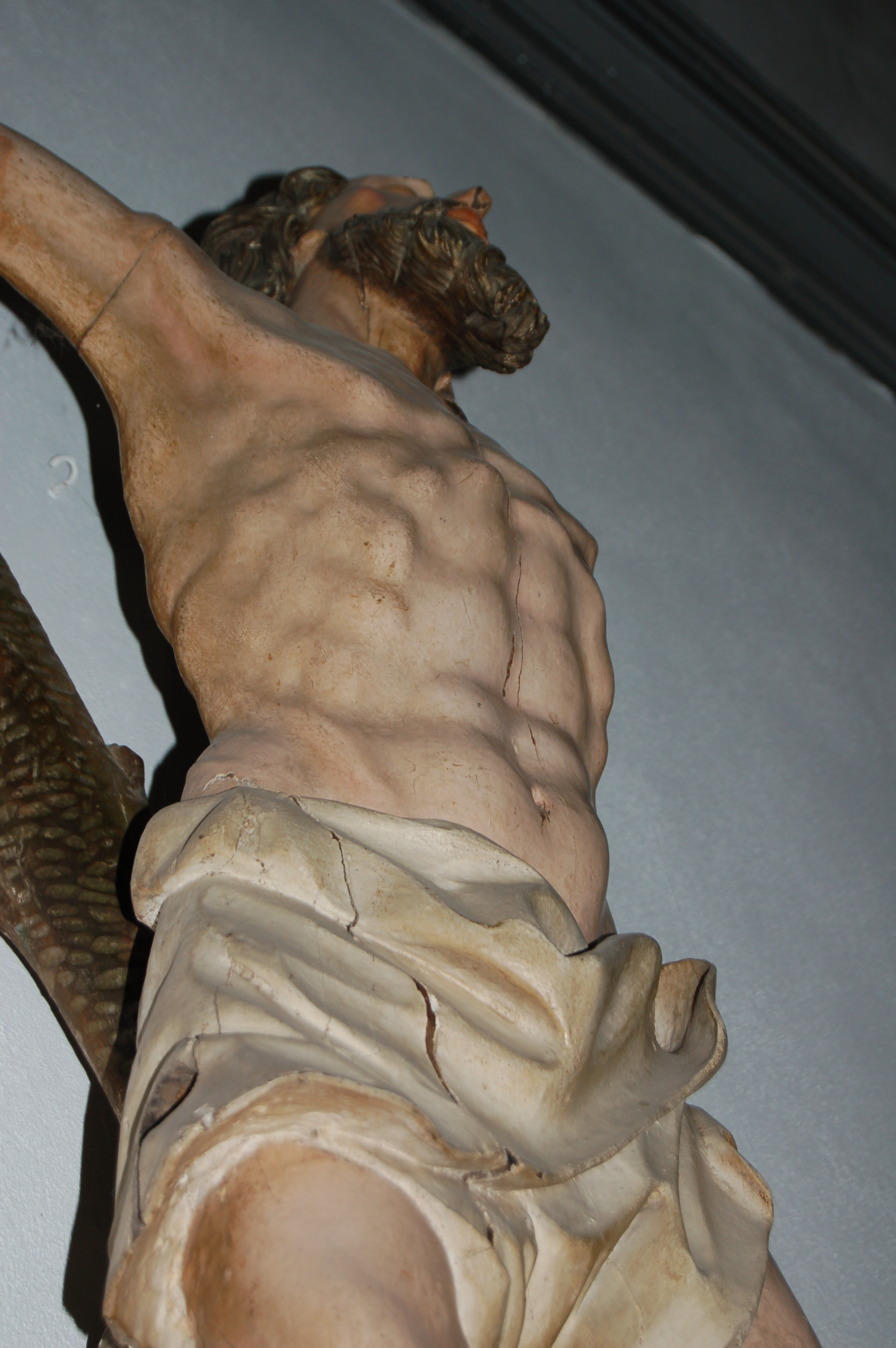 Santo André de Gregorio Español na capela de San Roque de Santiago de Compostela